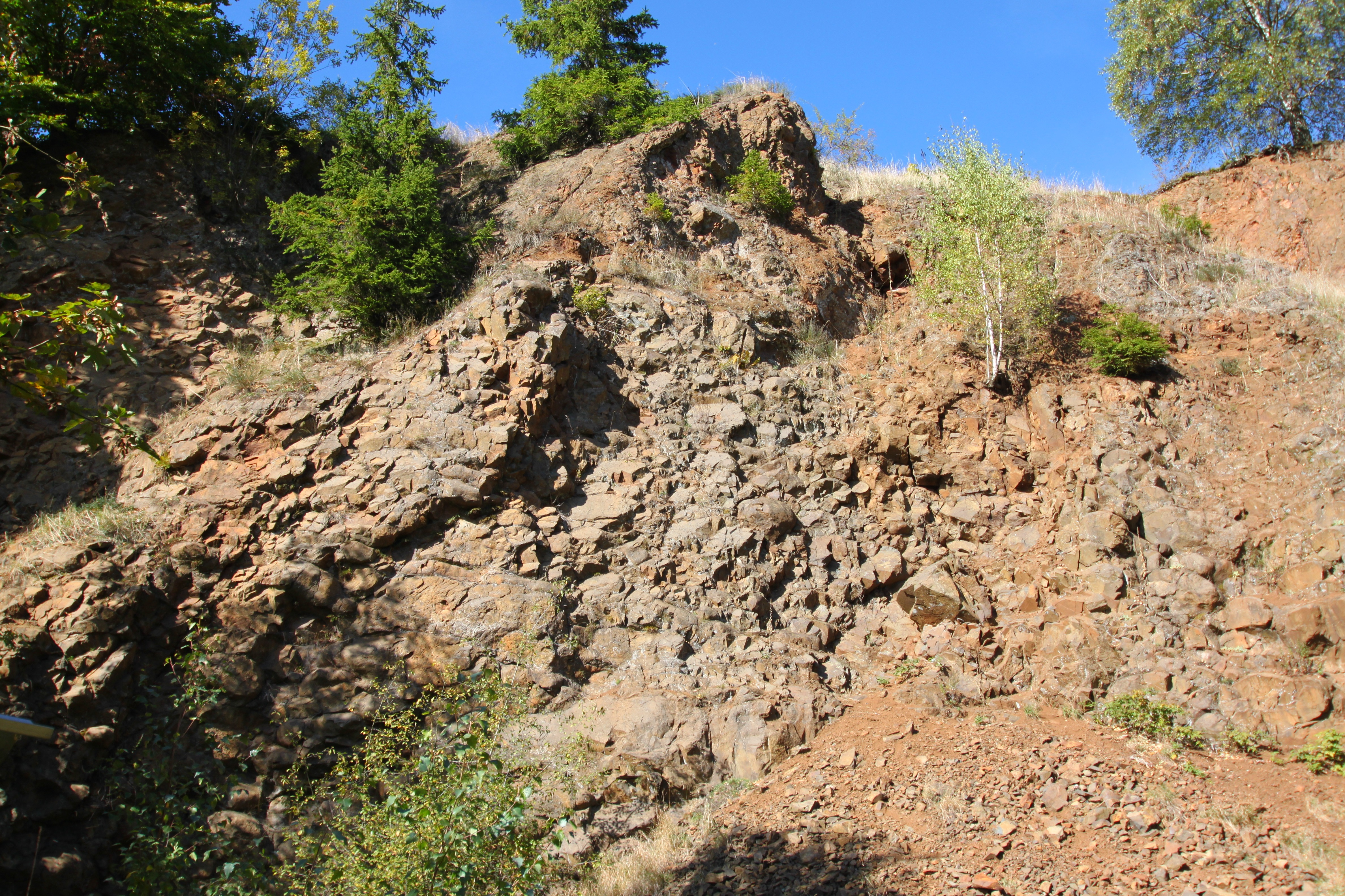 Diabasequarry at Galgenberg near Bernstein am Wald